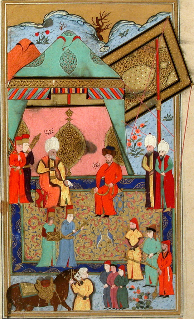 Alexander Khan in the presence of Osman Paşa (the autumn of 1578) or Levend-oghlu ( =Alexander II of Kakheti) and Lala Mustafa Pasha